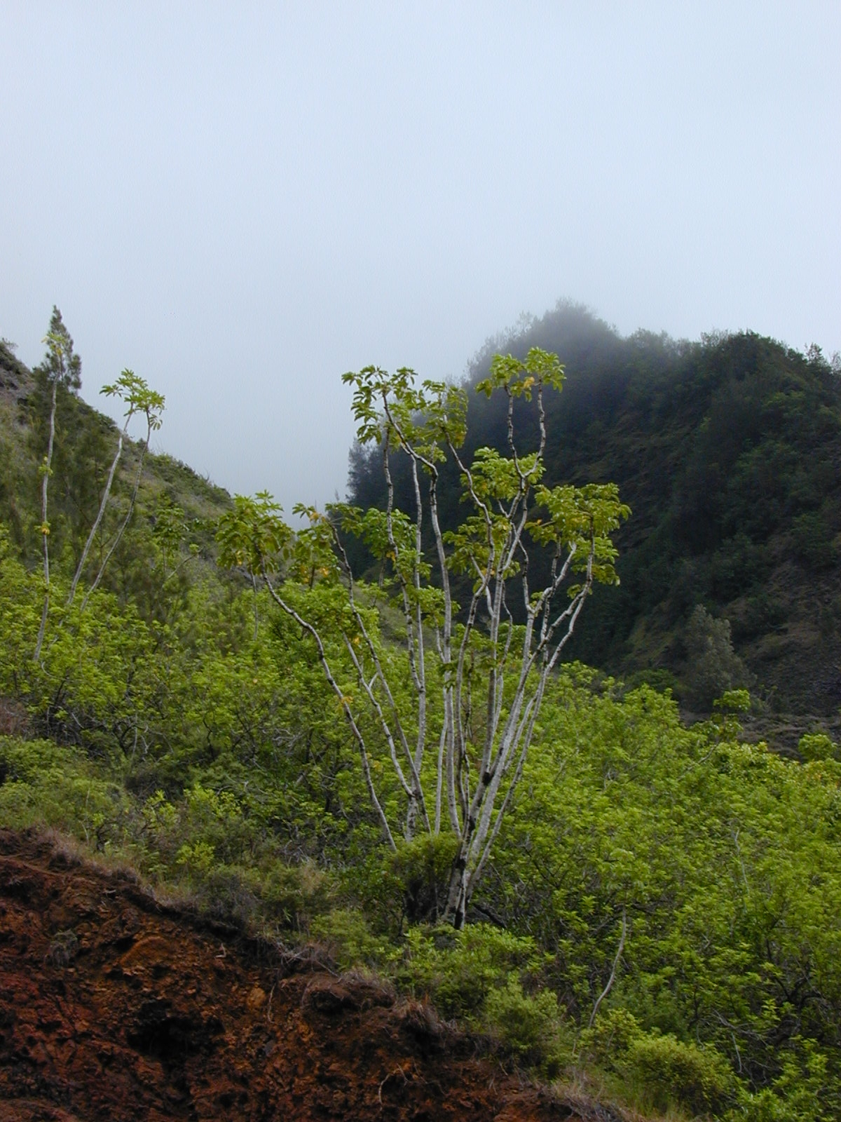 Schefflera actinophylla (habit with mountains behind). Location: Maui, Iao Valley